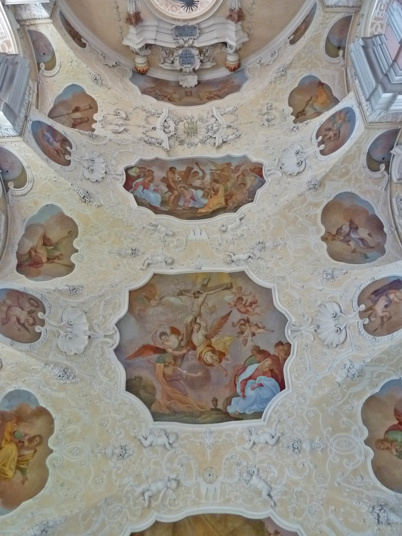 Maria Freienstein stucco ceiling